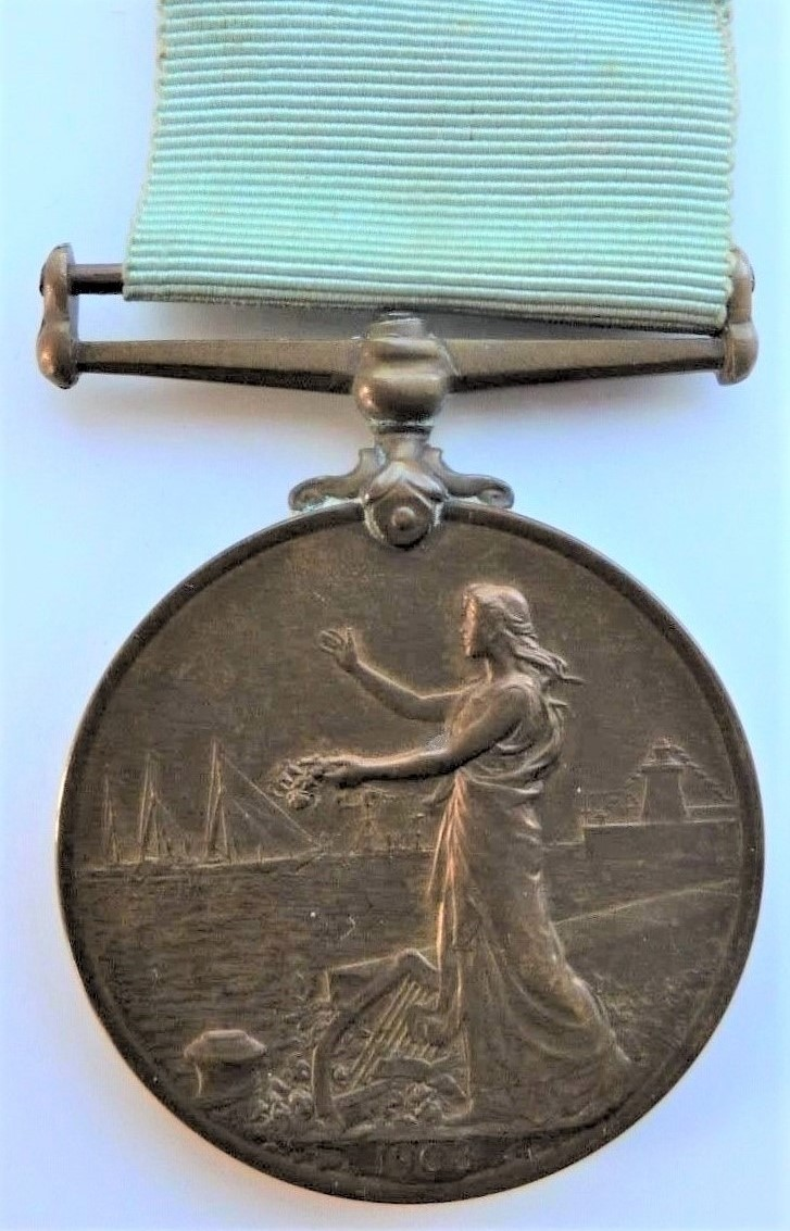 King Edward VII's Visit to Ireland Medal, 1903, reverse. British commemorative medal.